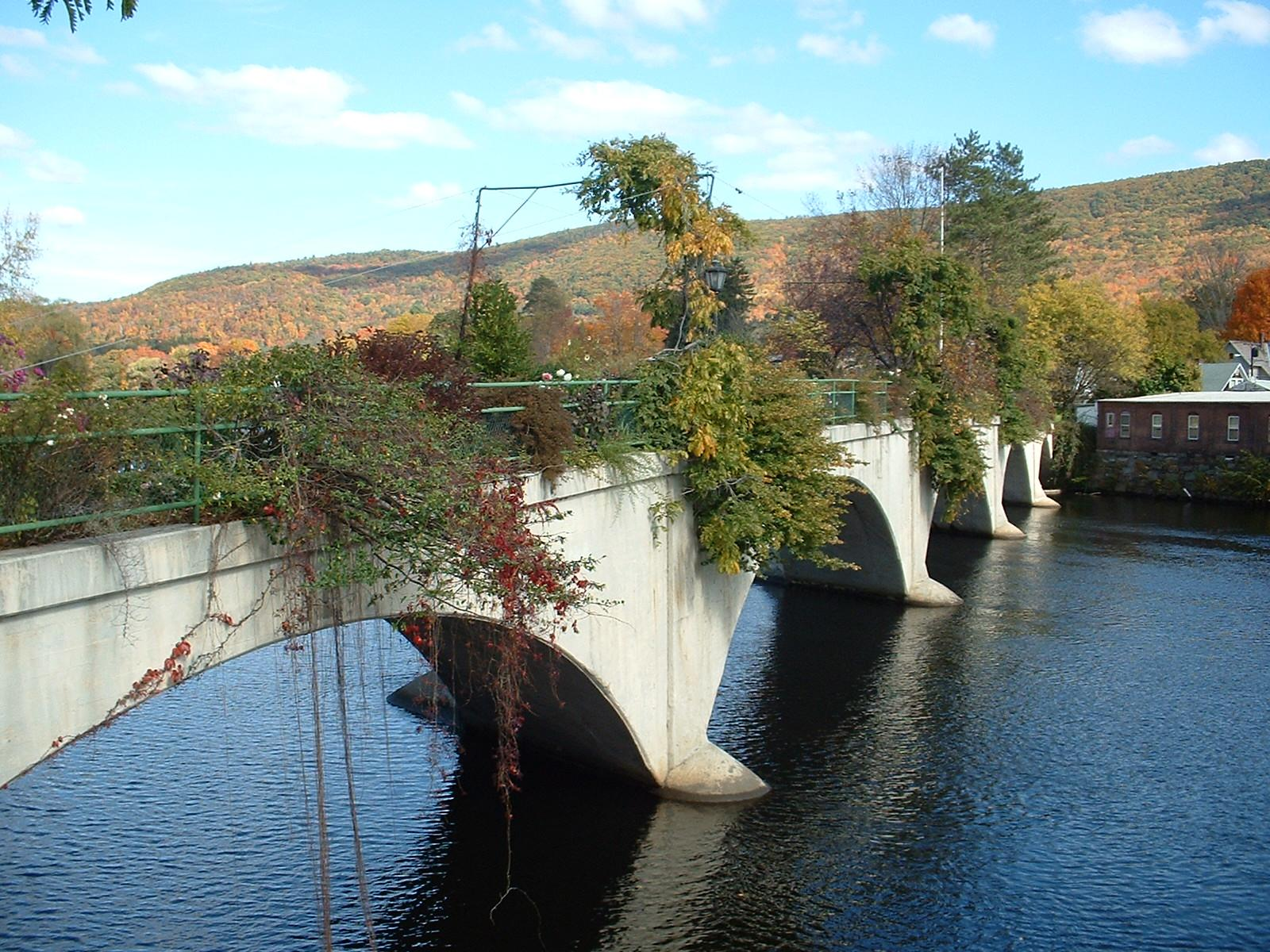 The Bridge of Flowers, a botanical gardens along an old trolley bridge over the Deerfield River in Shelburne Falls, Massachusetts.